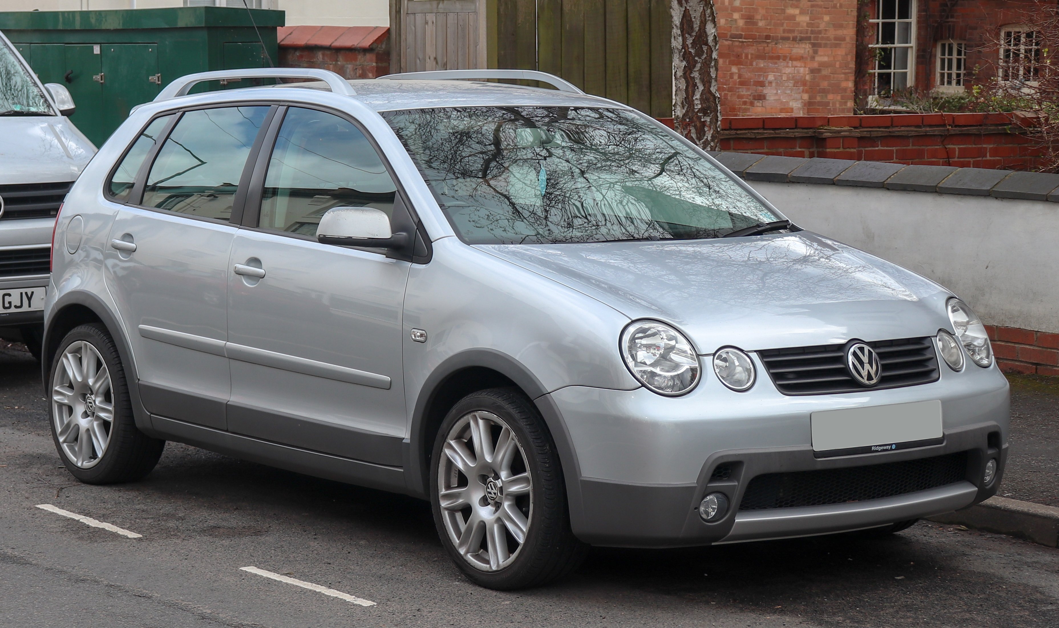 2005 Volkswagen Polo Dune TDi 1.4 Front Taken in Leamington Spa